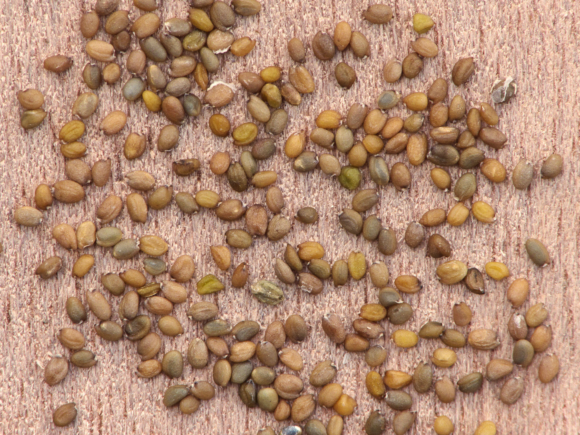 Diplotaxis tenuifolia seeds